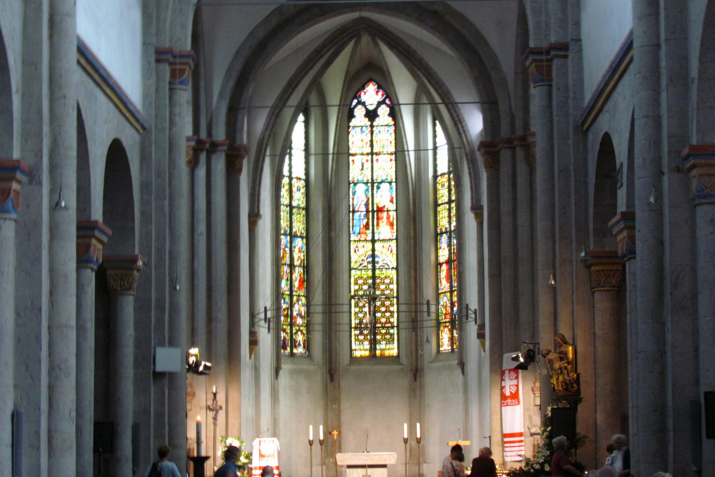 This is a photograph of an architectural monument. .07 (2)